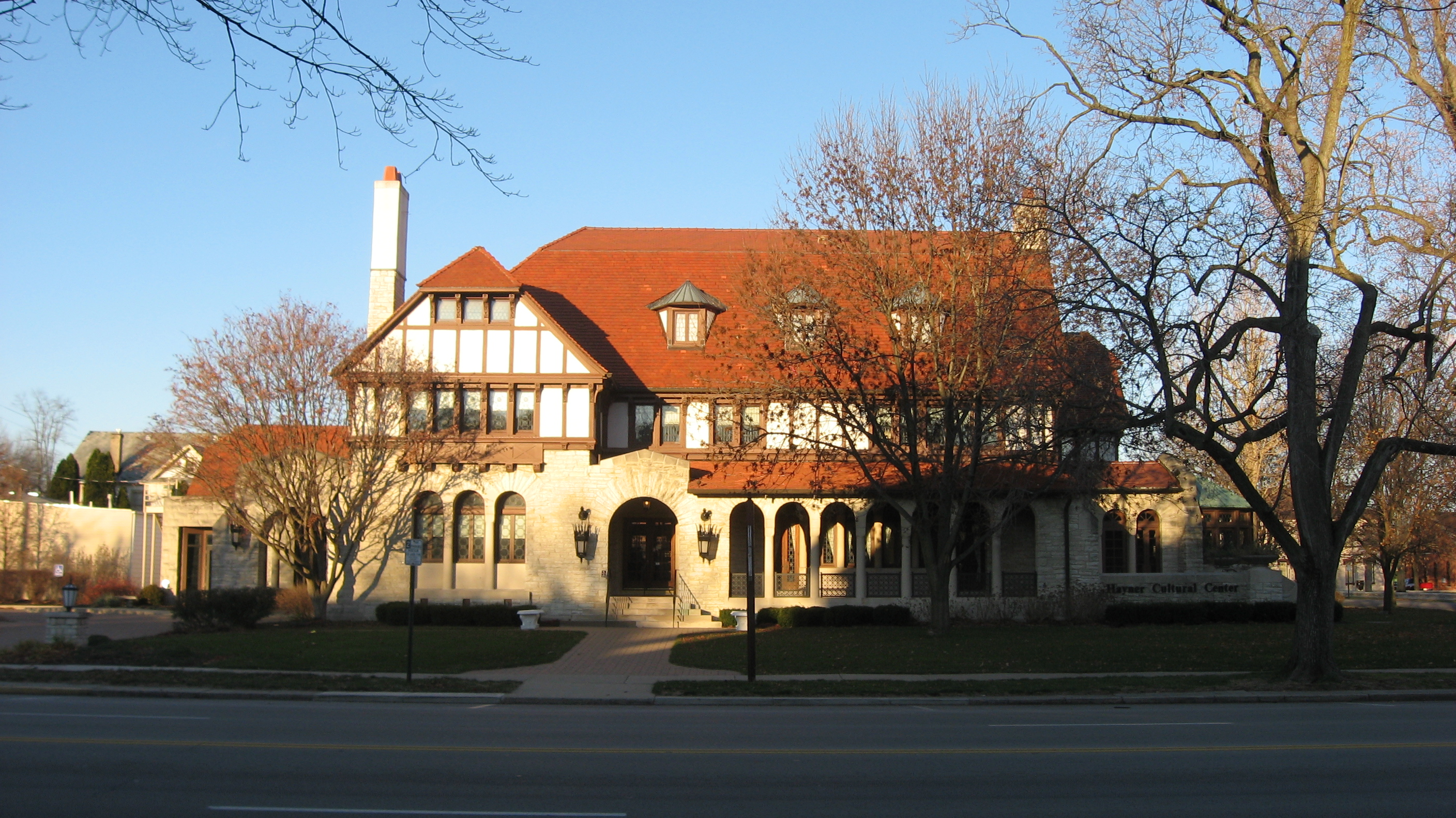 Front of the Mary Jane Hayner House (now the Troy-Hayner Cultural Center), located at 301 W. Main Street (State Route 41) in Troy, Ohio, United States. Built in 1914, it is listed on the National Register of Historic Places. Center website.